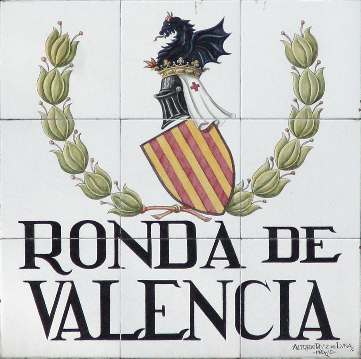 Sign of Ronda de Valencia (street) in Madrid (Spain).